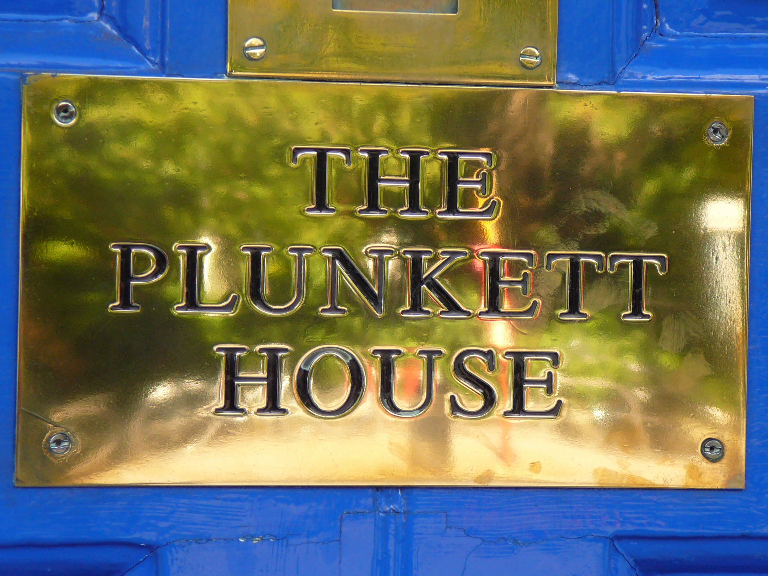 Image of nameplate on The Plunkett House, 84 Merrion Square, Dublin, Ireland, founded by Sir Horace Plunkett, head-office of the present-day Irish Co-operative Organisation Society.